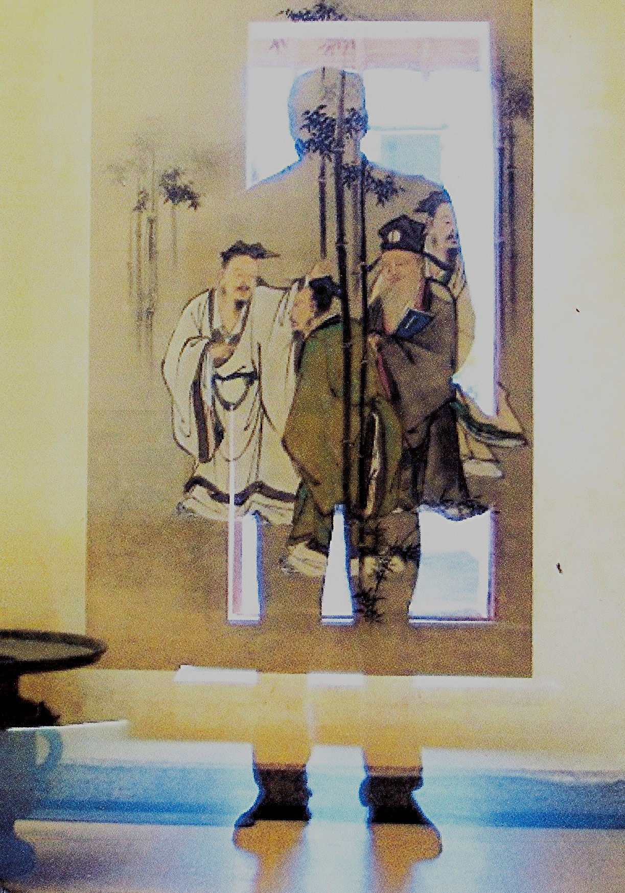 Within Kumaya Museum